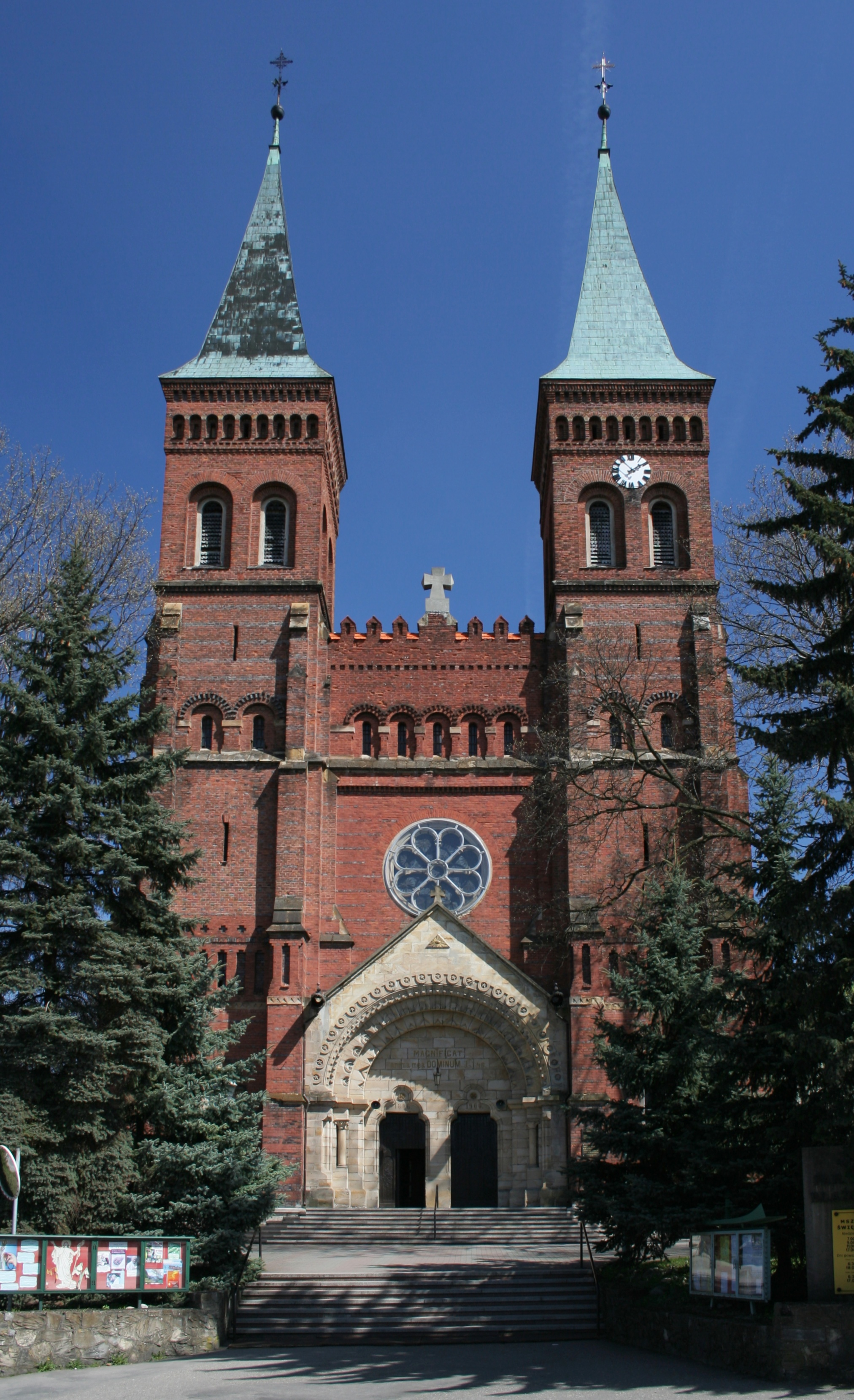 The church of Saint Martin in Błażowa, Poland.